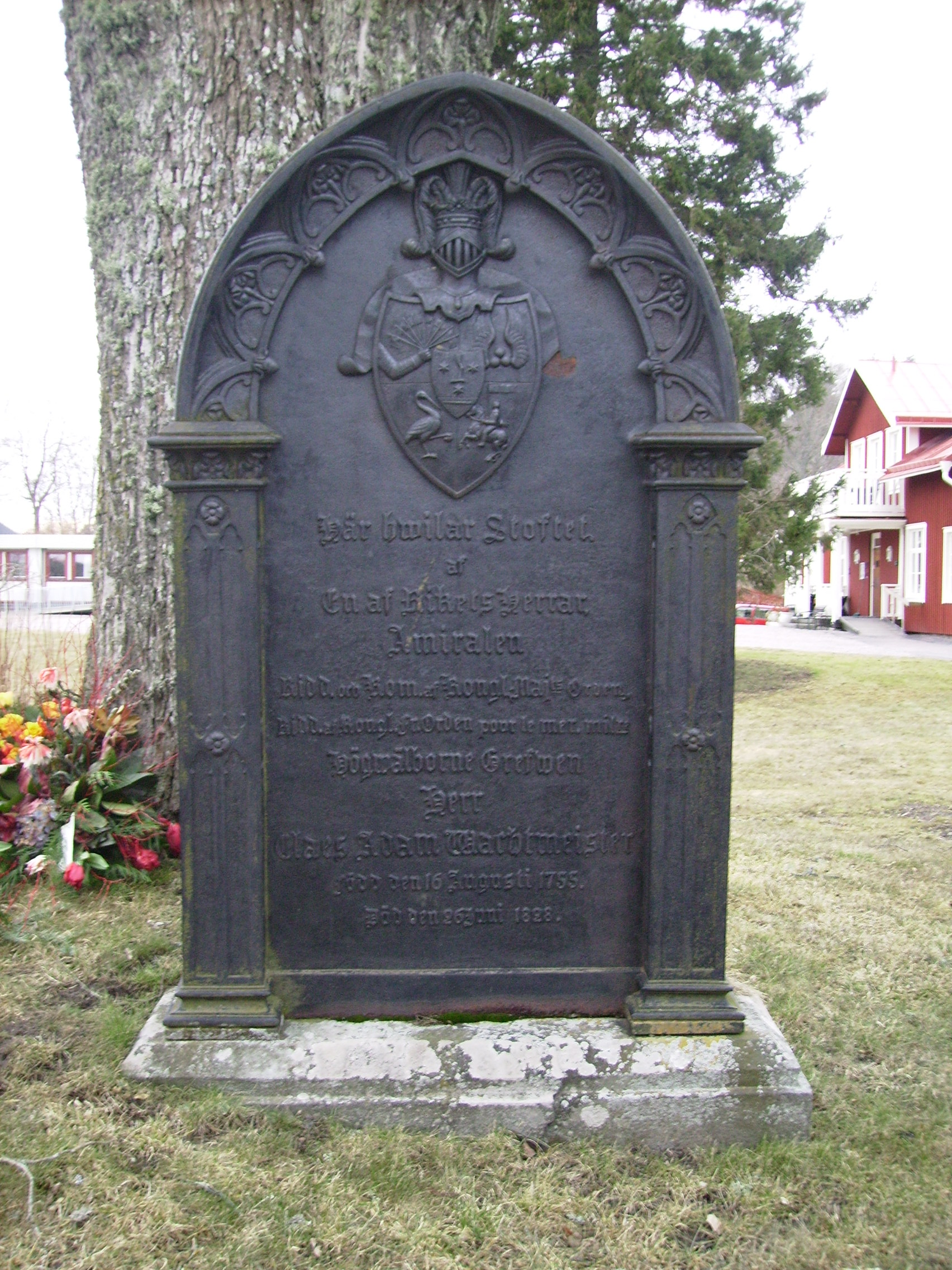 Picture of the grave of Claes Adam Wachtmeister at Frustuna graveyard.